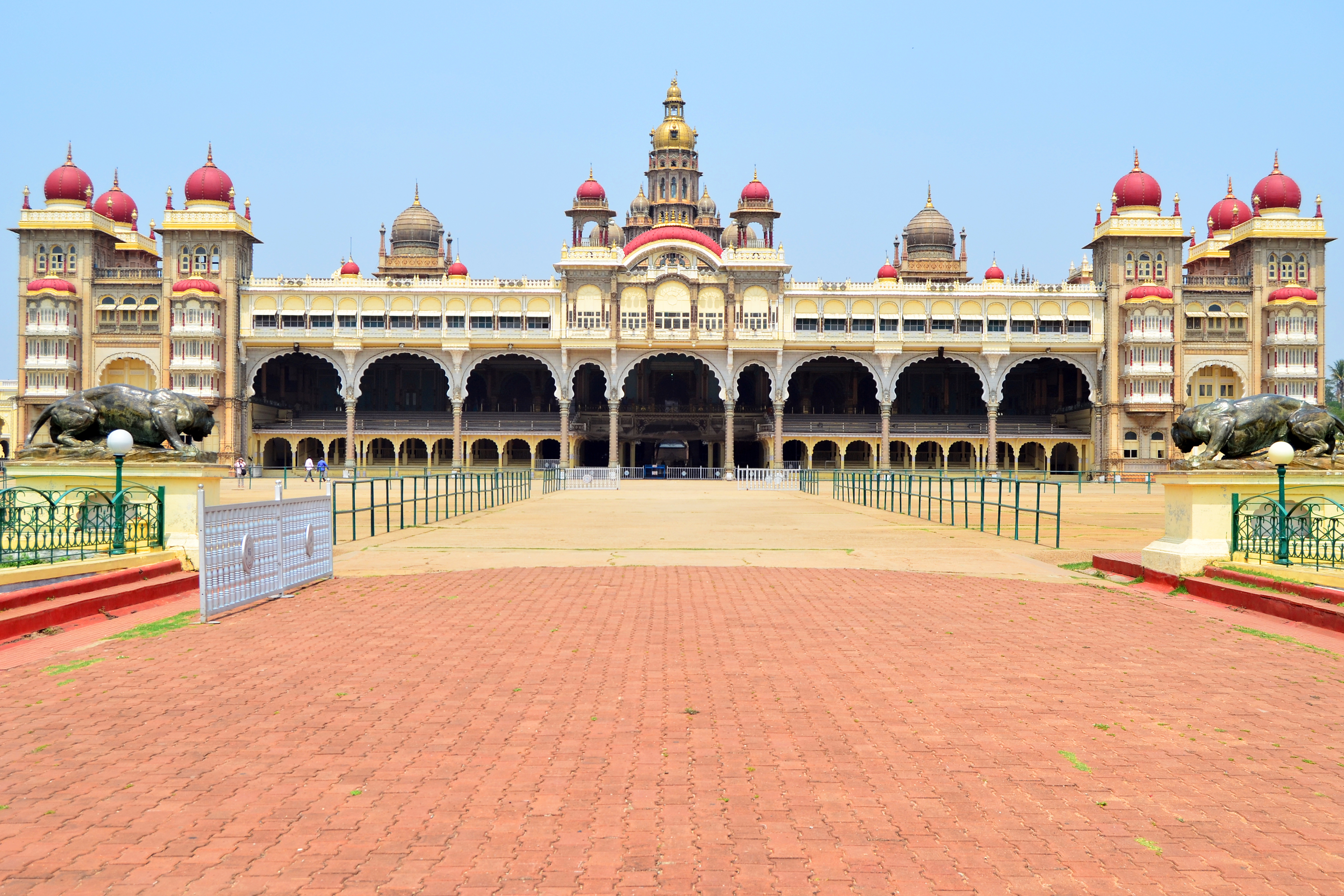 FULL VIEW OF MYSORE PALACE